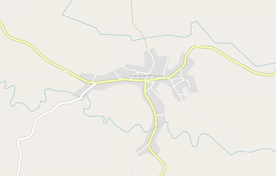 This map may be incomplete, and may contain errors. Don't rely solely on it for navigation.